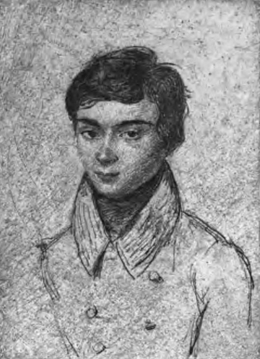 Portrait of Évariste Galois, young man in front of bust coating a redingote.